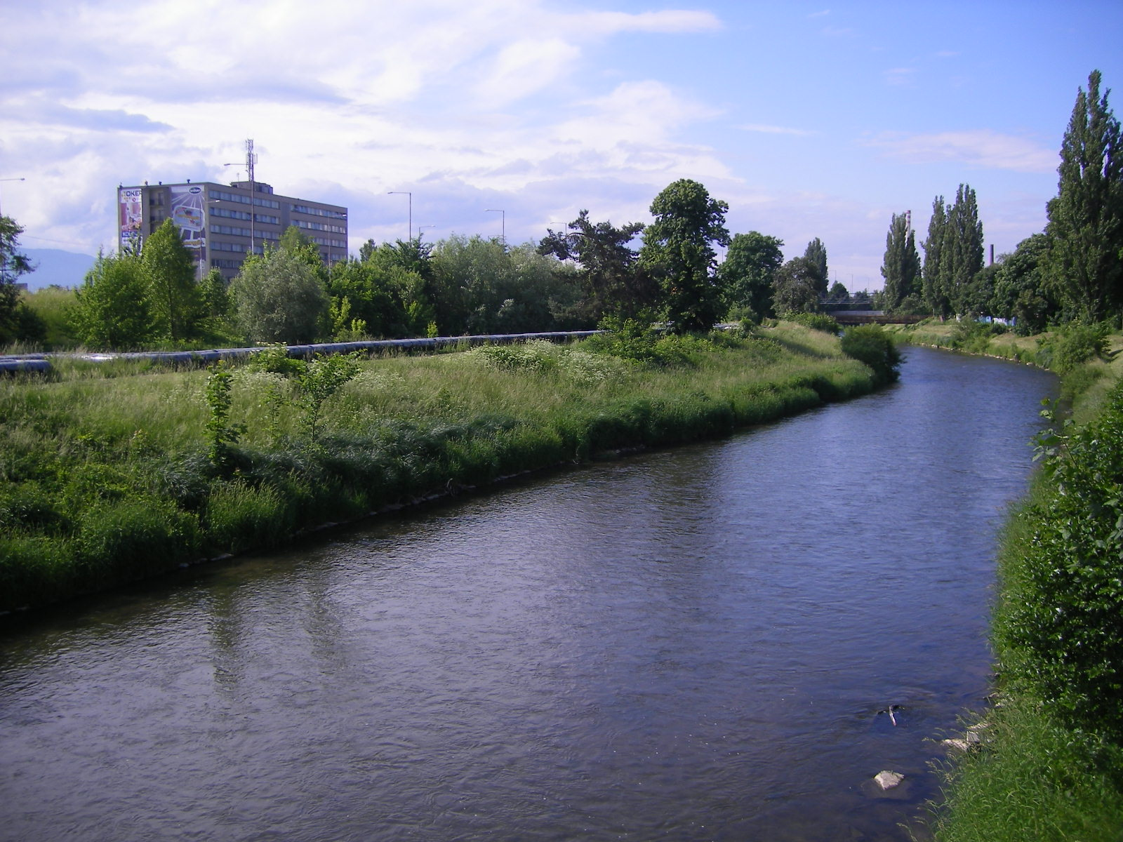 Martin - Turiec River